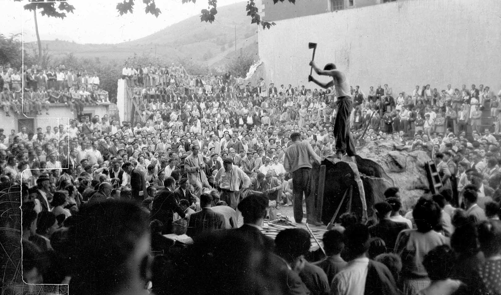 The aizkolari (axe-man) called Luxia on a trunk-cutting bet. Year 1949, Deba, Gipuzkoa (Basque Country). The tree on the image was cut by a group in Nabarniz, Biscay, Basque Country and it's 2,1 meters tall. Joan Joxe Luxia Narbaiza accepted a bet of 50.000 pesetas if he was able to cut it. Finally, due to the extreme hotness he couldn't do it.